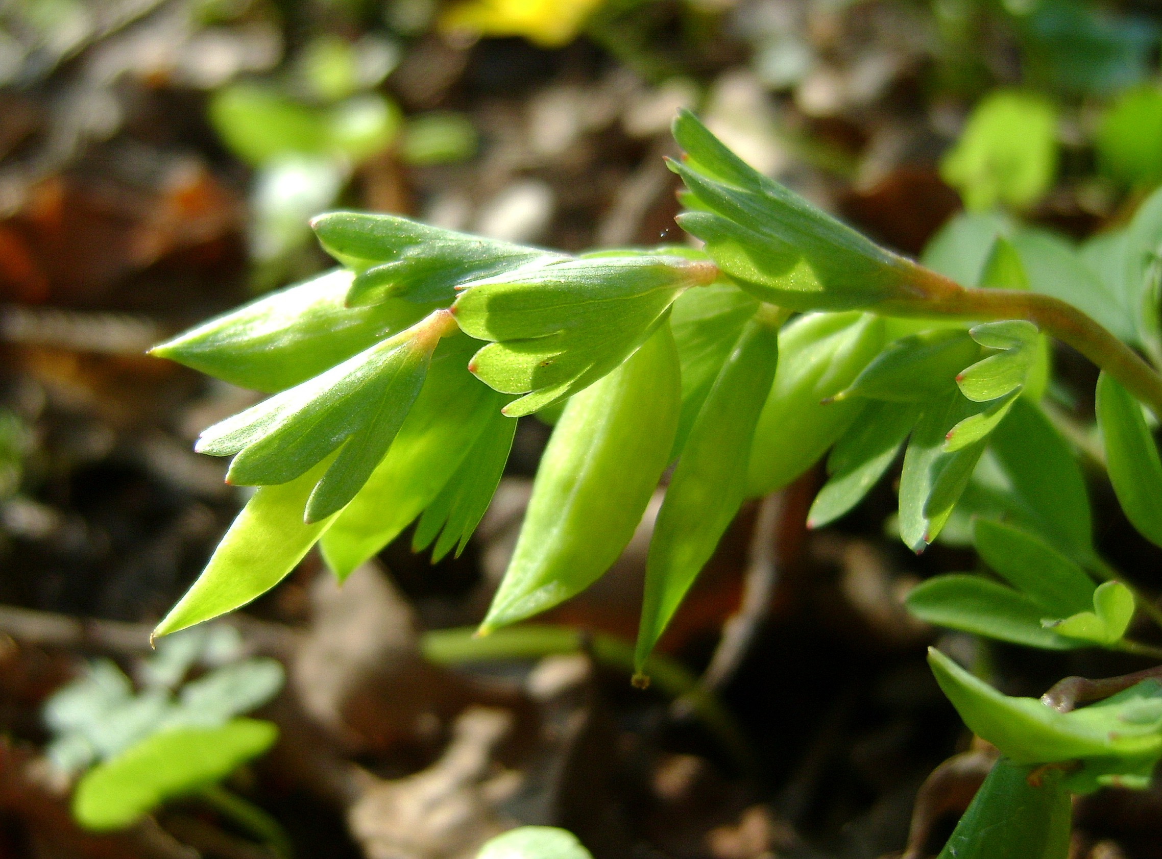 Fruits of Corydalis pumila. Near Połczyn Zdrój in Western Pomerania (NW Poland).